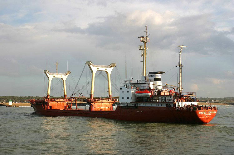 The cargo ship Pavel Korchagin in Brest, sister-ship of the Black Pearl. IMO Number: 7832775 MMSI Number: 273117800 Callsign: UCPD Length: 130 m Beam: 18 m